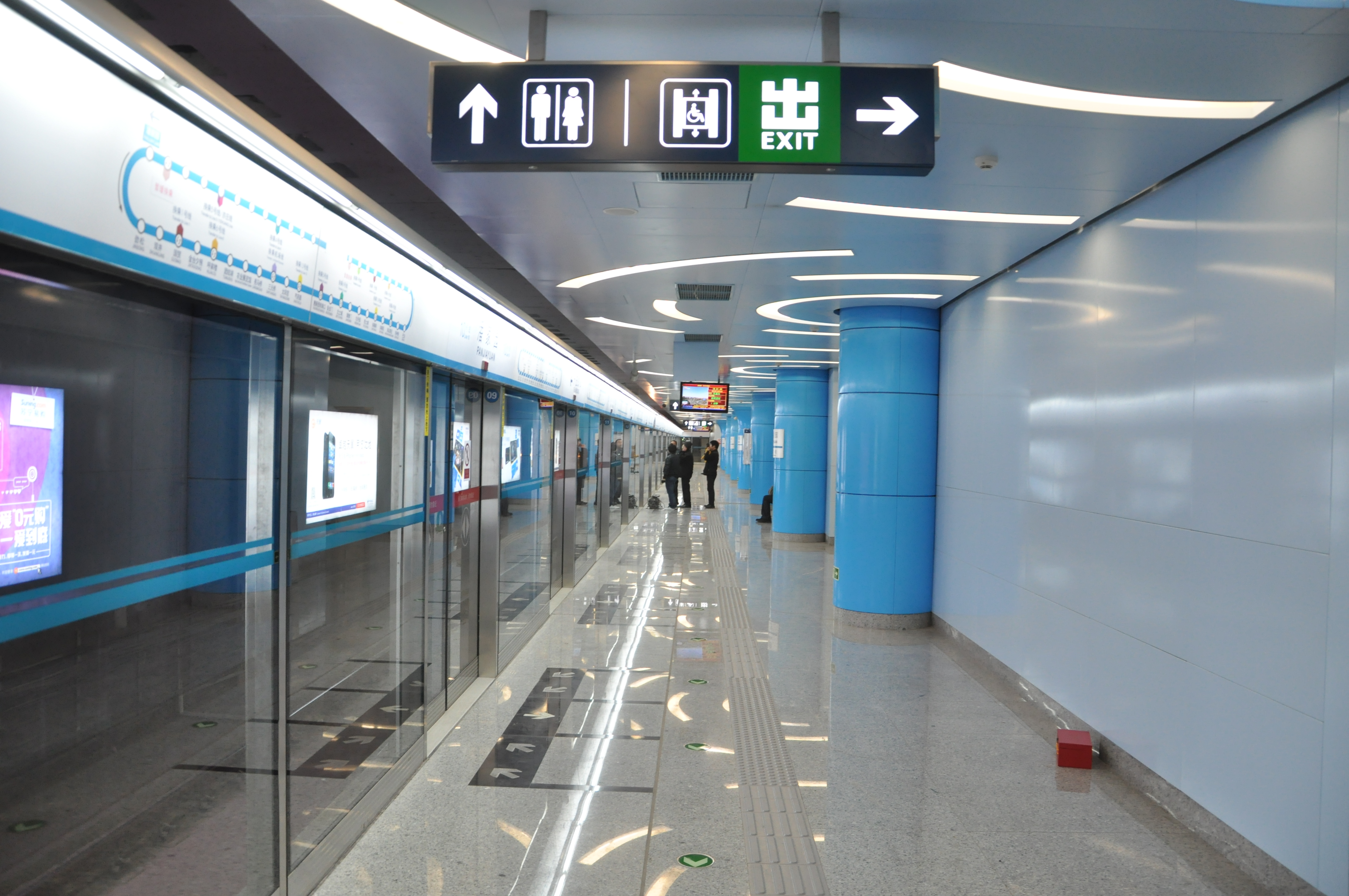 Platform of Panjiayuan station, Line 10, Beijing Subway